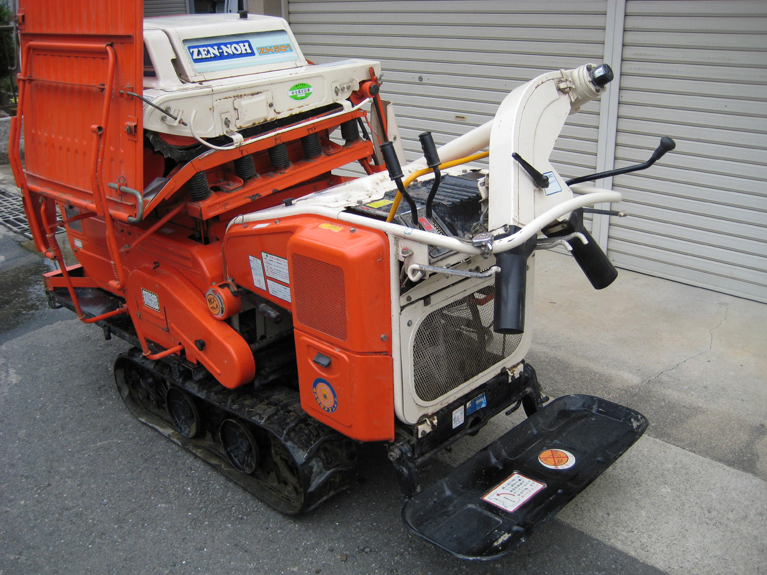 A tracked Kubota rice thresher (cf. Kubota HS series for related information), a Japanese style threshing machine especially made for the handling of rice. Notes: The Japanese sometimes also call this machine a "harvester", even if it doesn't really harvest, so it's not to be confused with a rice (combine) harvester. The visible label "ZEN-NOH ZH 501" is obviously not a model identification mark, but rather a sign for license production or so added by ZEN-NOH.